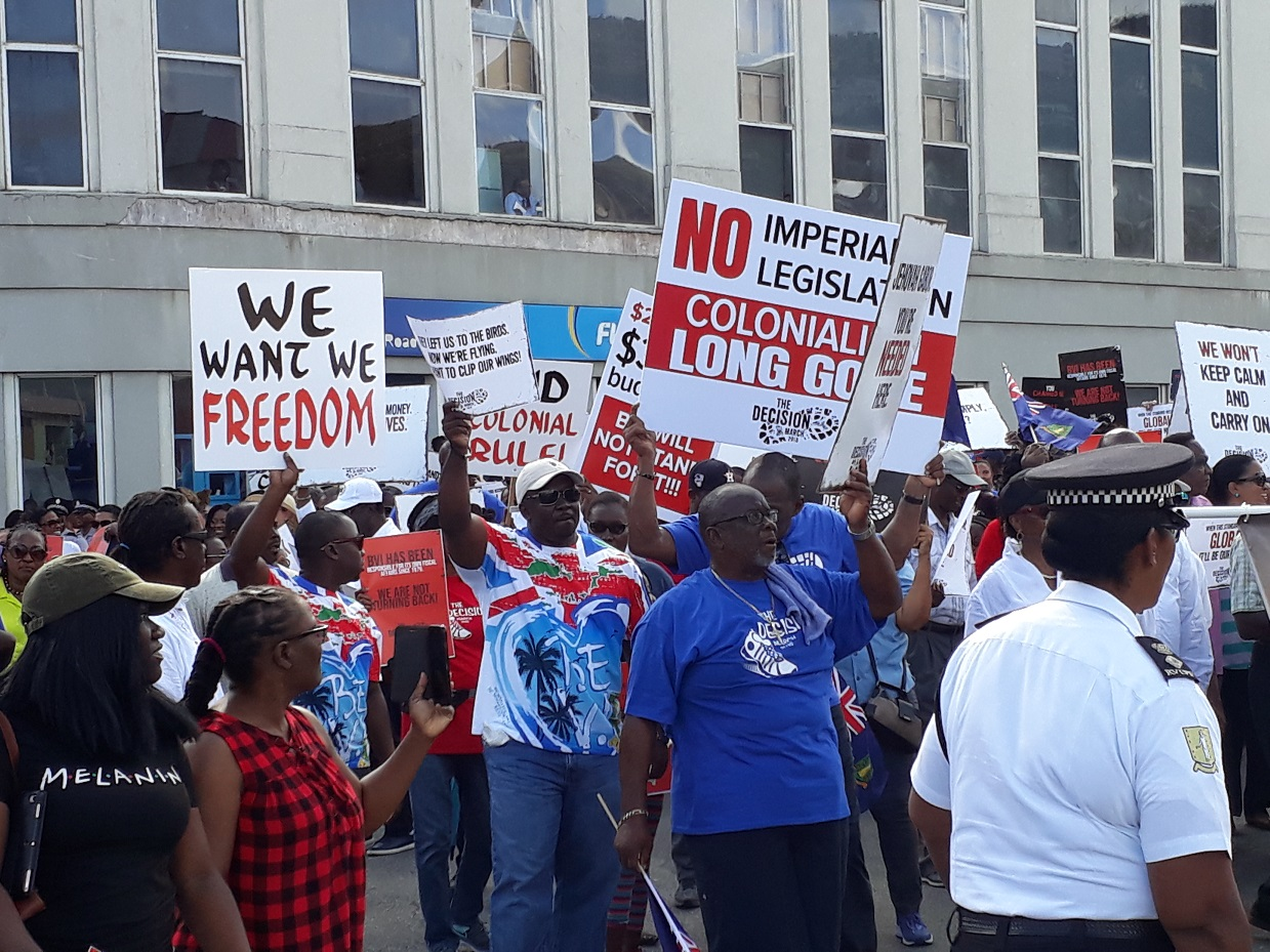 Photograph of the "Decision March" protests in the British Virgin Islands on 24 May 2018. Other information None.